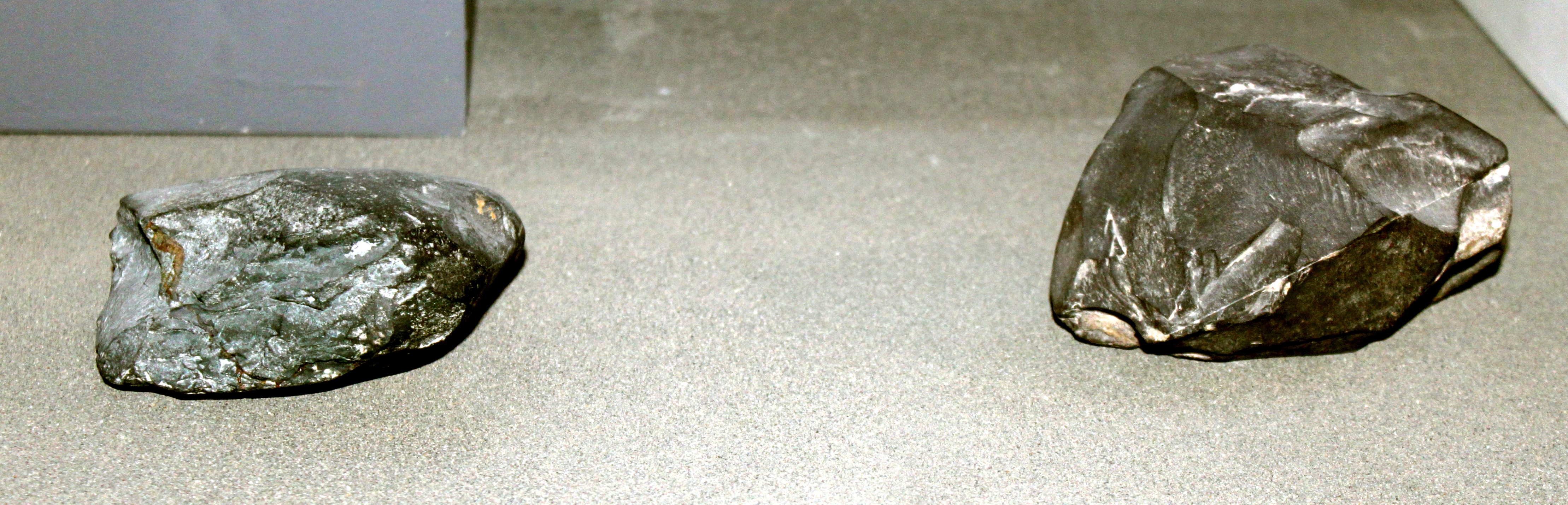 Çaxmaqdaşından əmək aləti, IV təbəqə, Azıx